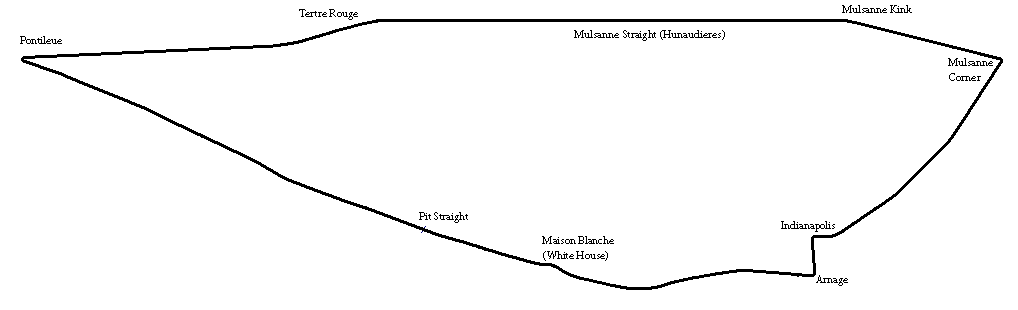 The original Circuit de la Sarthe, Le Mans from 1921 to 1928.